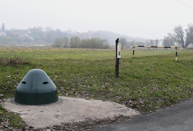 Bunker in Cigacice (PL).